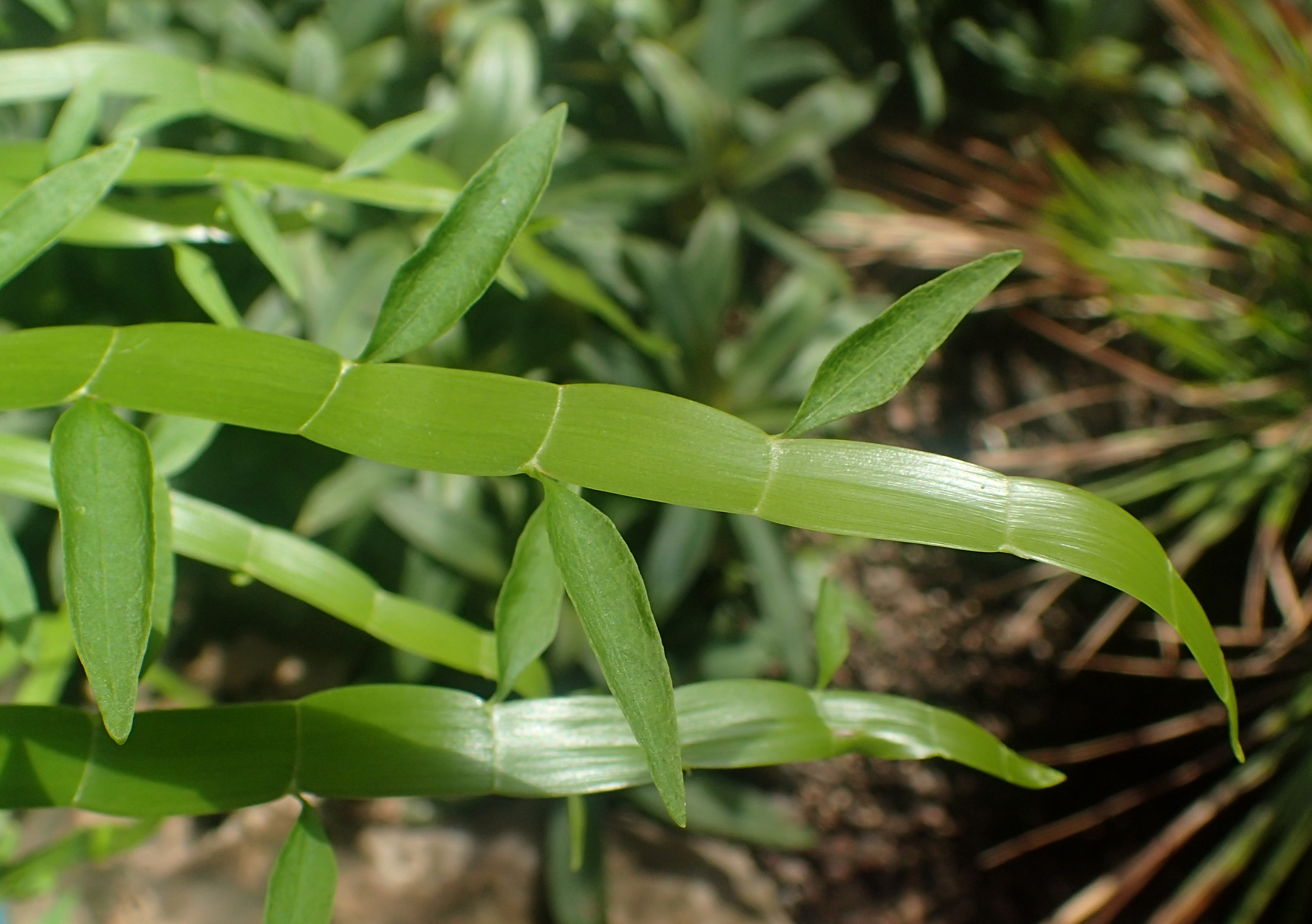 Homalocladium platycladum at Garfield Park Conservatory, Illinois